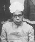 Chairman and members of the drafting committee of the Indian Constitution. (Sitting from left) N. Madhava Rao, Syed Muhammad Saadulla, Dr. B. R. Ambedkar (Chairman), Alladi Krishnaswamy Iyer, Sir Benegal, Narsingh Rao. (Standing from left) S. N. Mukharjee, Jugal Kishor Khanna and Kewal Krishnan. (29 August 1947)